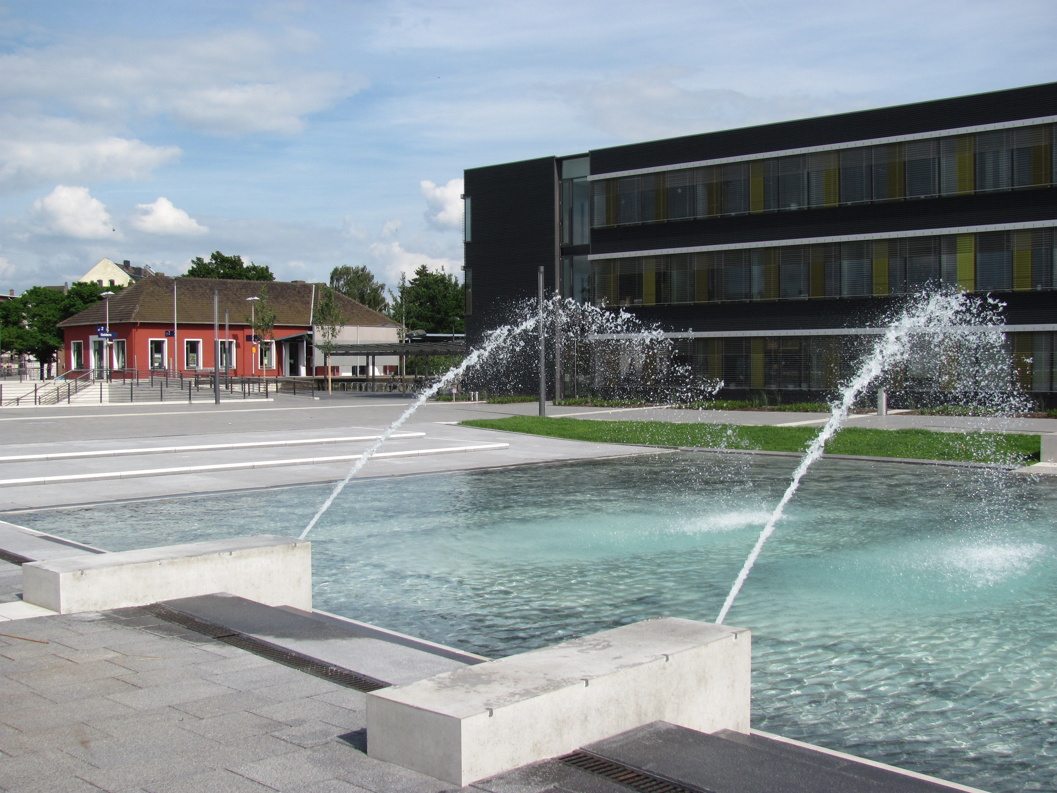 Railway Station (red) and Dept. of Inland Revenue (Finanzambt), City of Geldern, North Rhine Westphalia, Germany